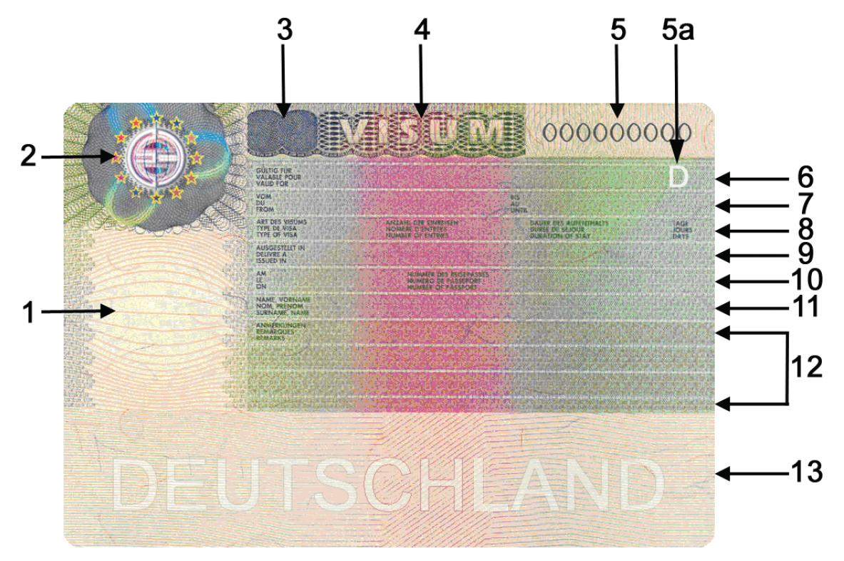 Specimen of a Visa sticker according to the Regulation (EC) No. 1683/1995 of 29 May 1995 as amended by Regulation (EC) No. 856/2009 of 24 July 2008 (OJ L 235, 2.9.2008, p. 3)